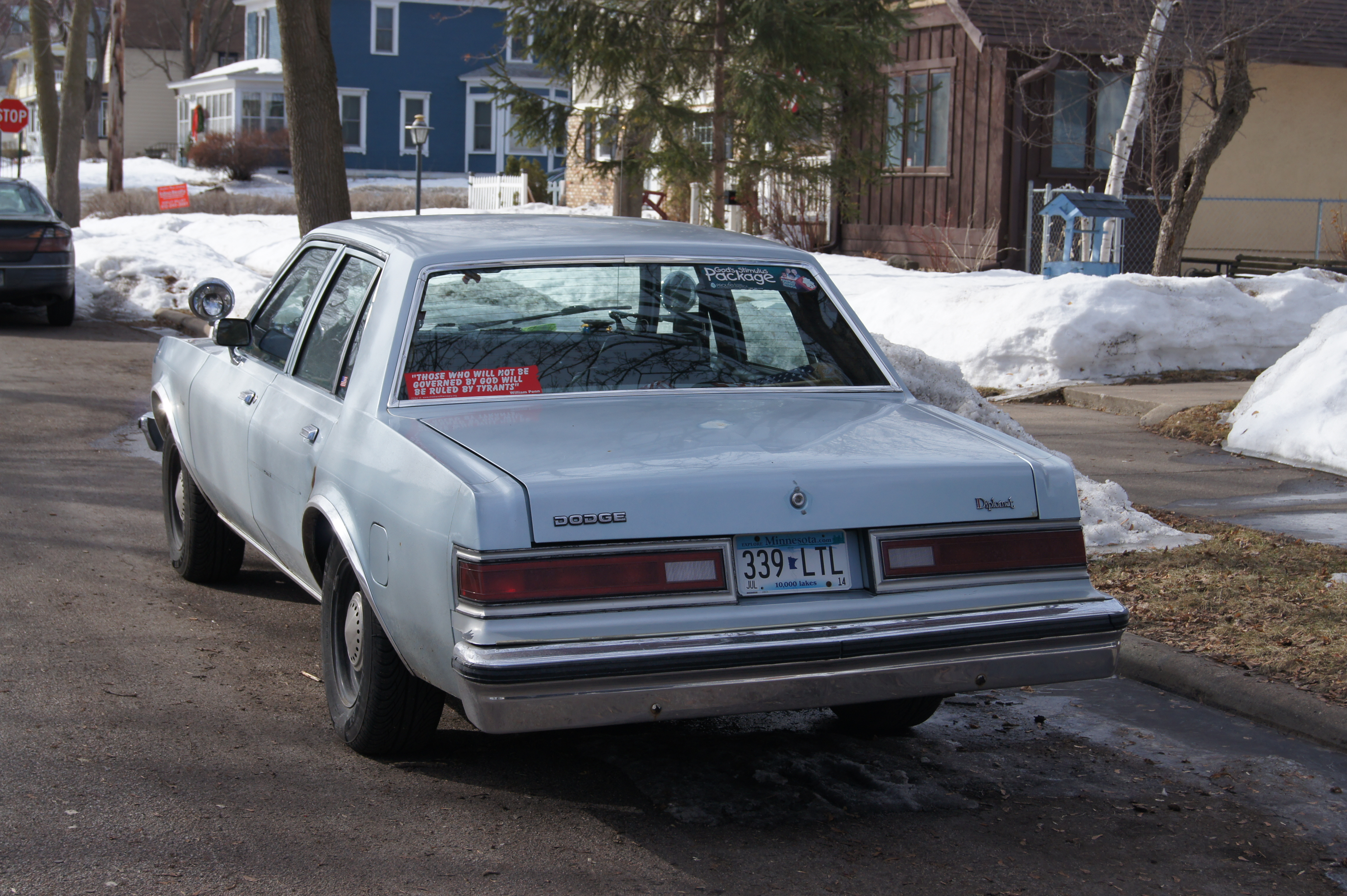 Follow this link for more car pictures